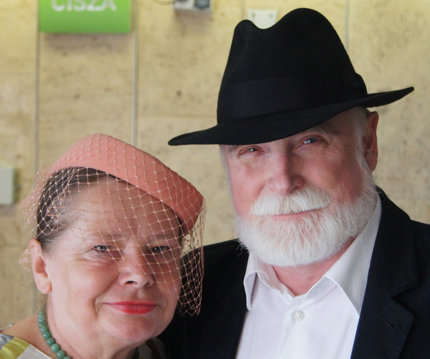 Krystyna and Stefan Chwin